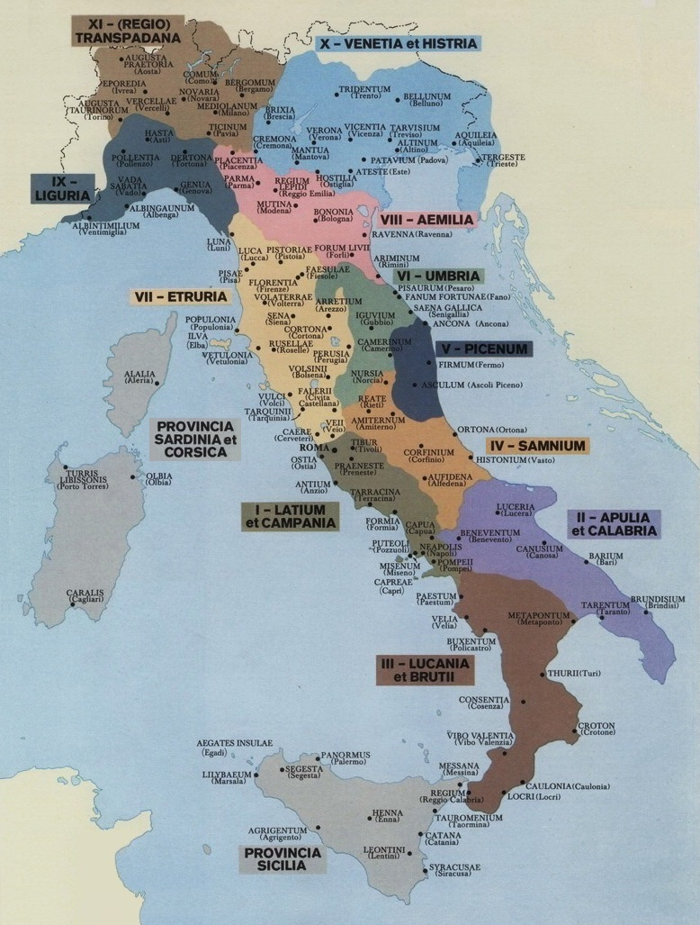 Italy during reign of Augustus 7 BC)